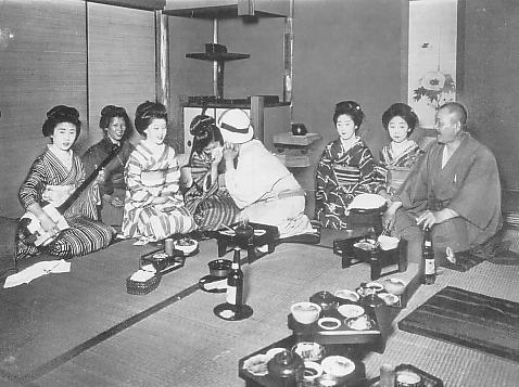 Geisha-Asobi(Geisha Entertainment) in the Taisho era